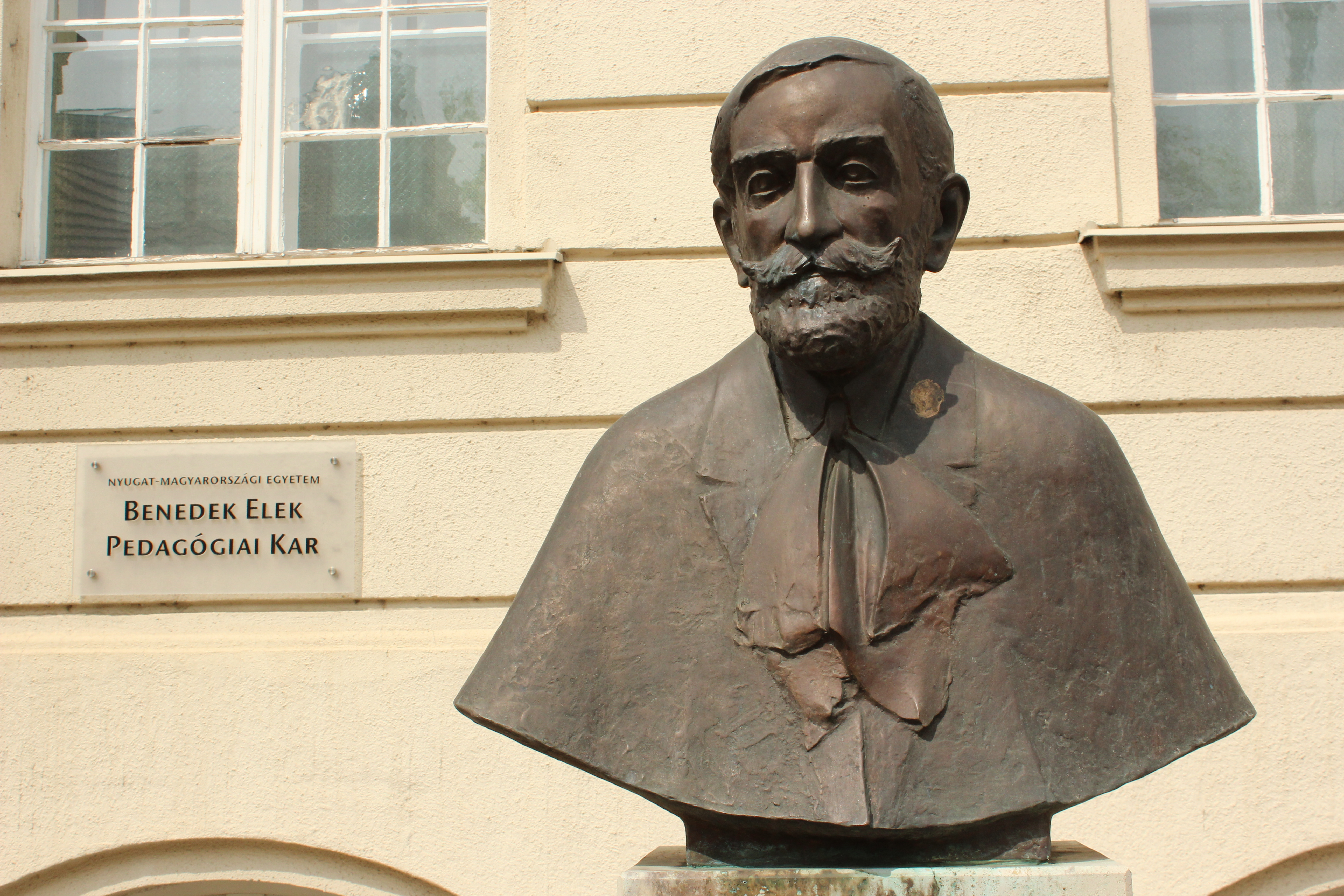 Bust of Elek Benedek (Sopron, Hungary). Sculptor: Tamás Soltra E., 2002.